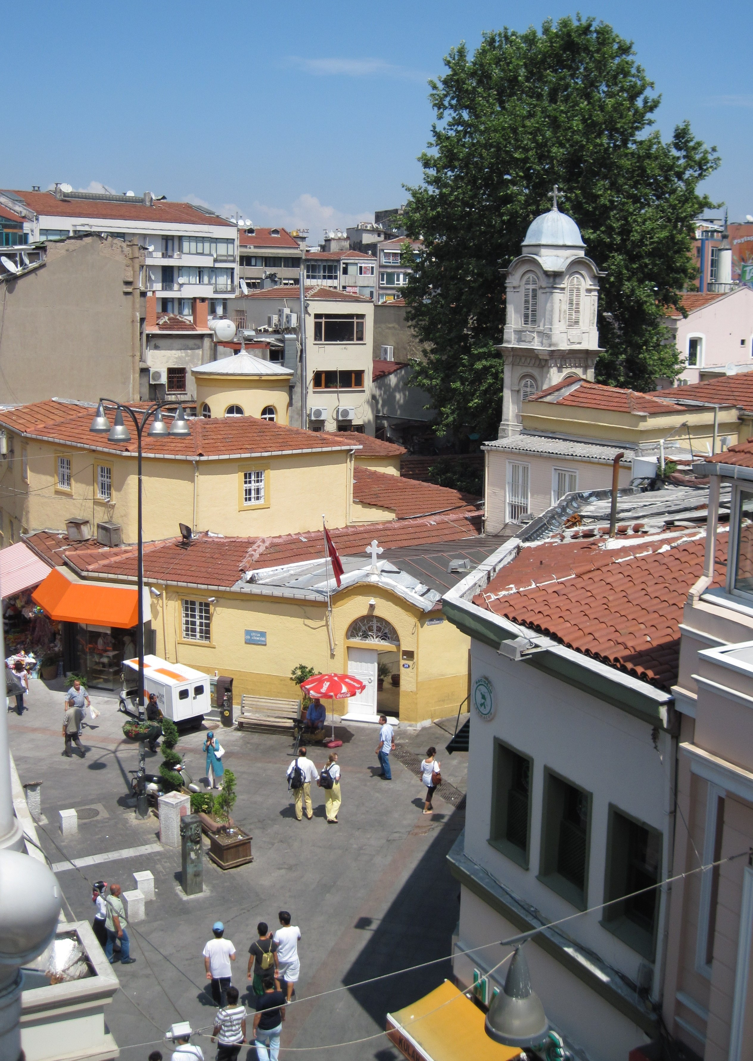 A view of the small church of St Euphemia in the çarşı (market centre) of Kadıköy, Istanbul. The church serves as the cathedral of the Diocese of Chalcedon. Interlingua: Un vista del parve ecclesia de Sancte Euphemia in le çarşı (centro commercial) de Kadıköy in Istanbul. Le ecclesia servi como le cathedral del Diocese de Chalcedon.